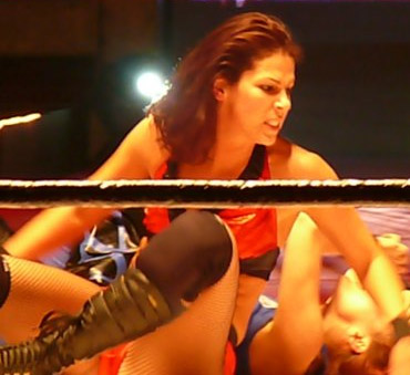 Cathy Corino (a.k.a. Allison Danger, top) vs. 'Jezebel' Eden Black, RQW (24/03/07). Taken by myself, Steve Riley, at the event.